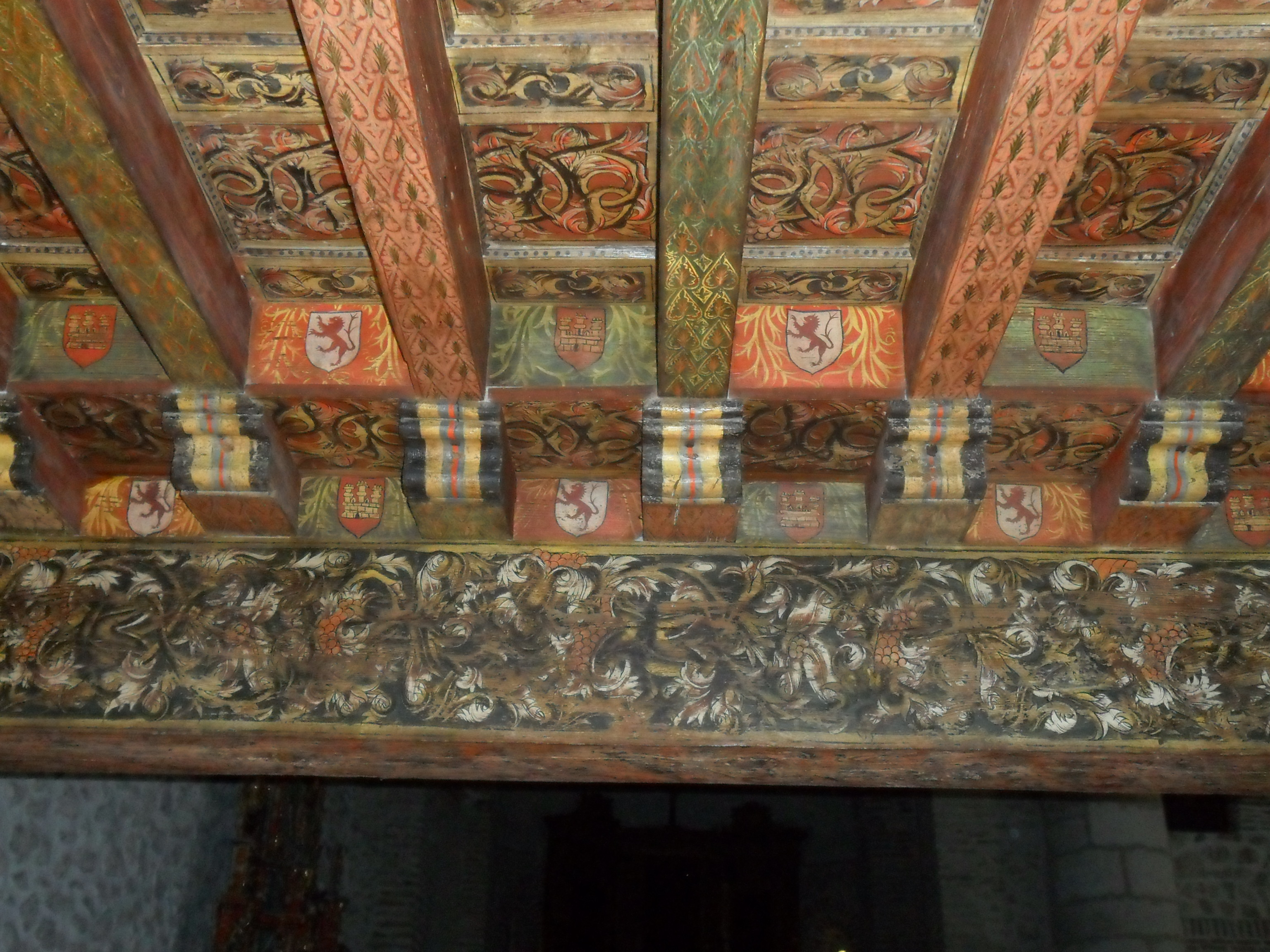 Mudejar art. Medieval painting egg based (XIV century). Santibáñez de Valcorba, Valladolid.Spain